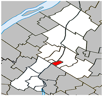 Location of Otterburn Park, Quebec within La Vallée-du-Richelieu Regional County Municipality.